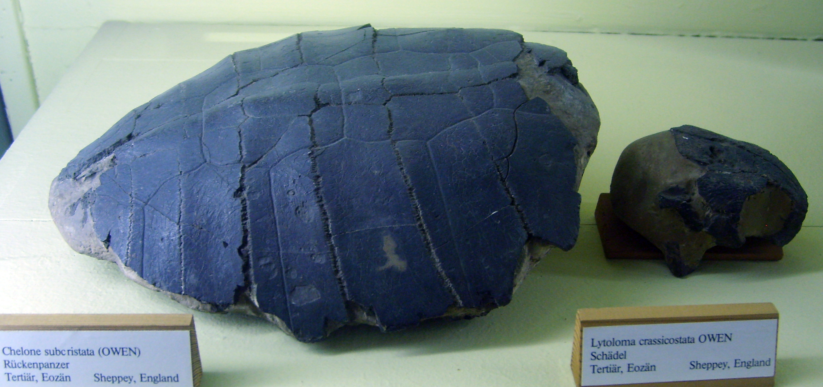 Shell of Argillochelys subcristata (formerly Chelone subcristata) and skull of Glossochelys planimentum (formerly Lytoloma crassicostata), at the Museum für Naturkunde, Berlin.